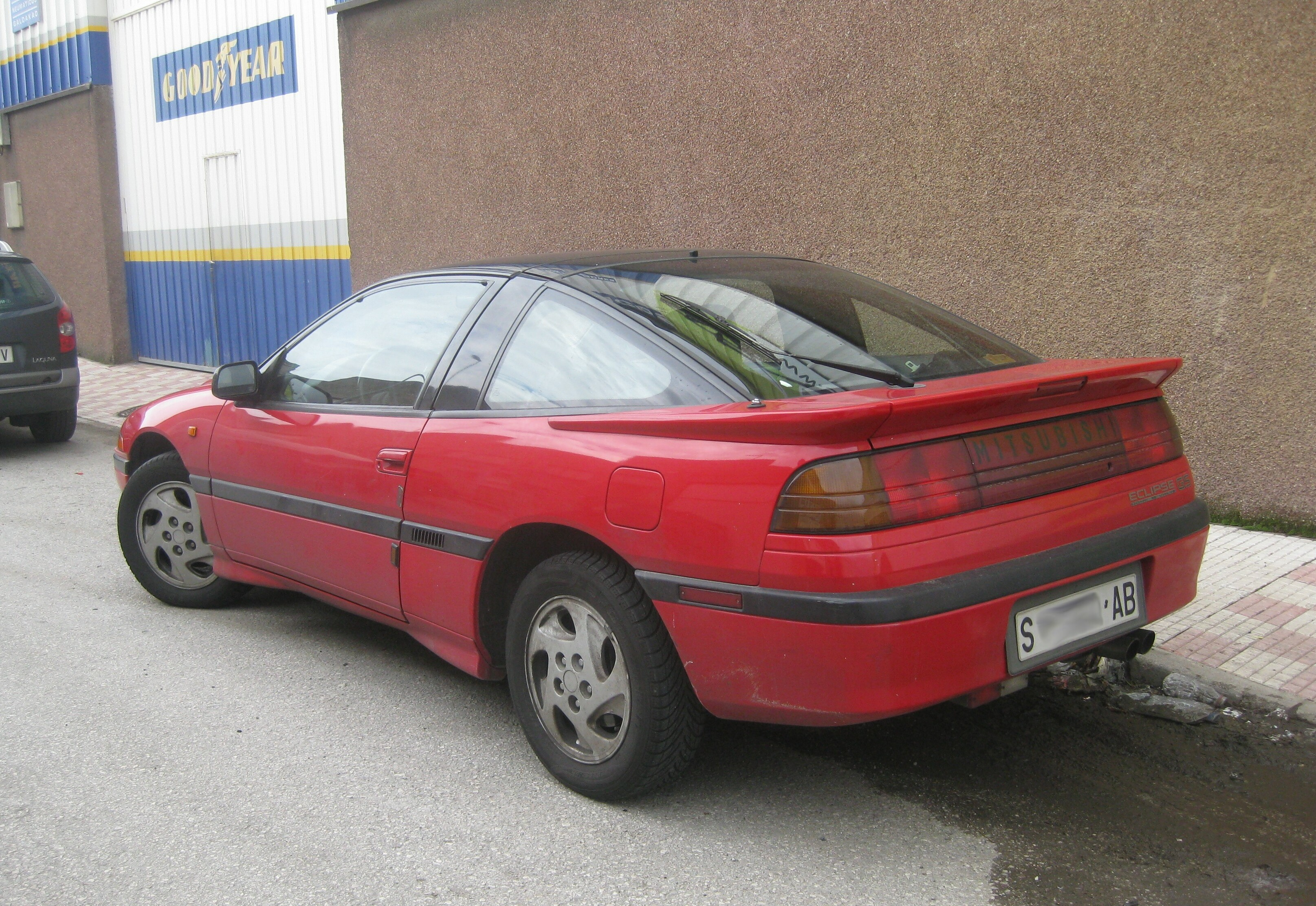 So nice and so well cared!!! all it needs is a wash :P Seen in Santander (Cantabria).